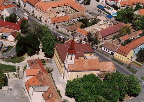 Tapolca, Hungary, aerialphotography